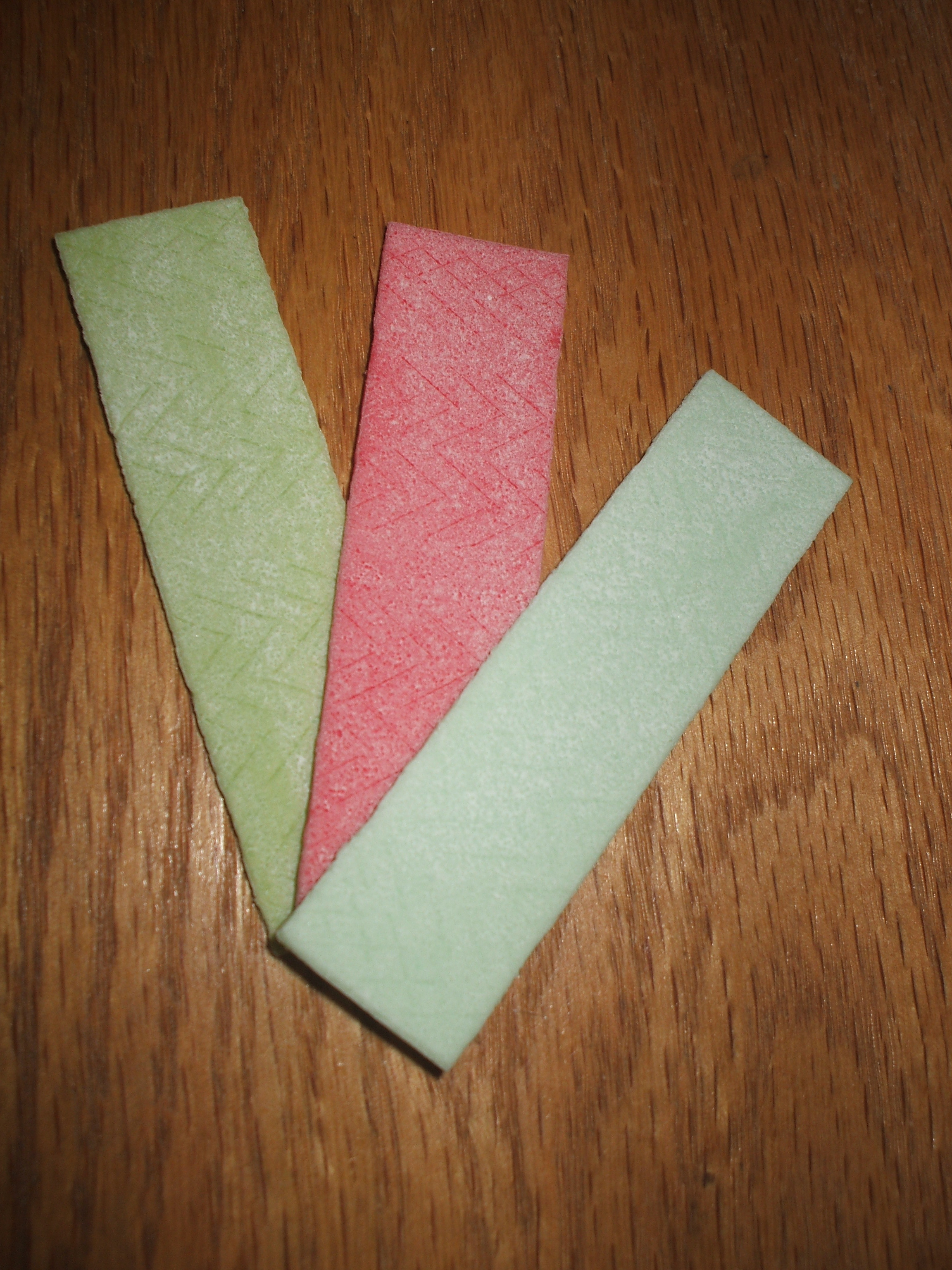 Read an Extra Dessert Delights review here